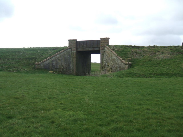 Bridge over old Boddam to Ellon rail line. A dog-leg section of the old main Aberdeen to Peterhead road (then A952, now A90) abandoned after re-alignment in the 1970s.